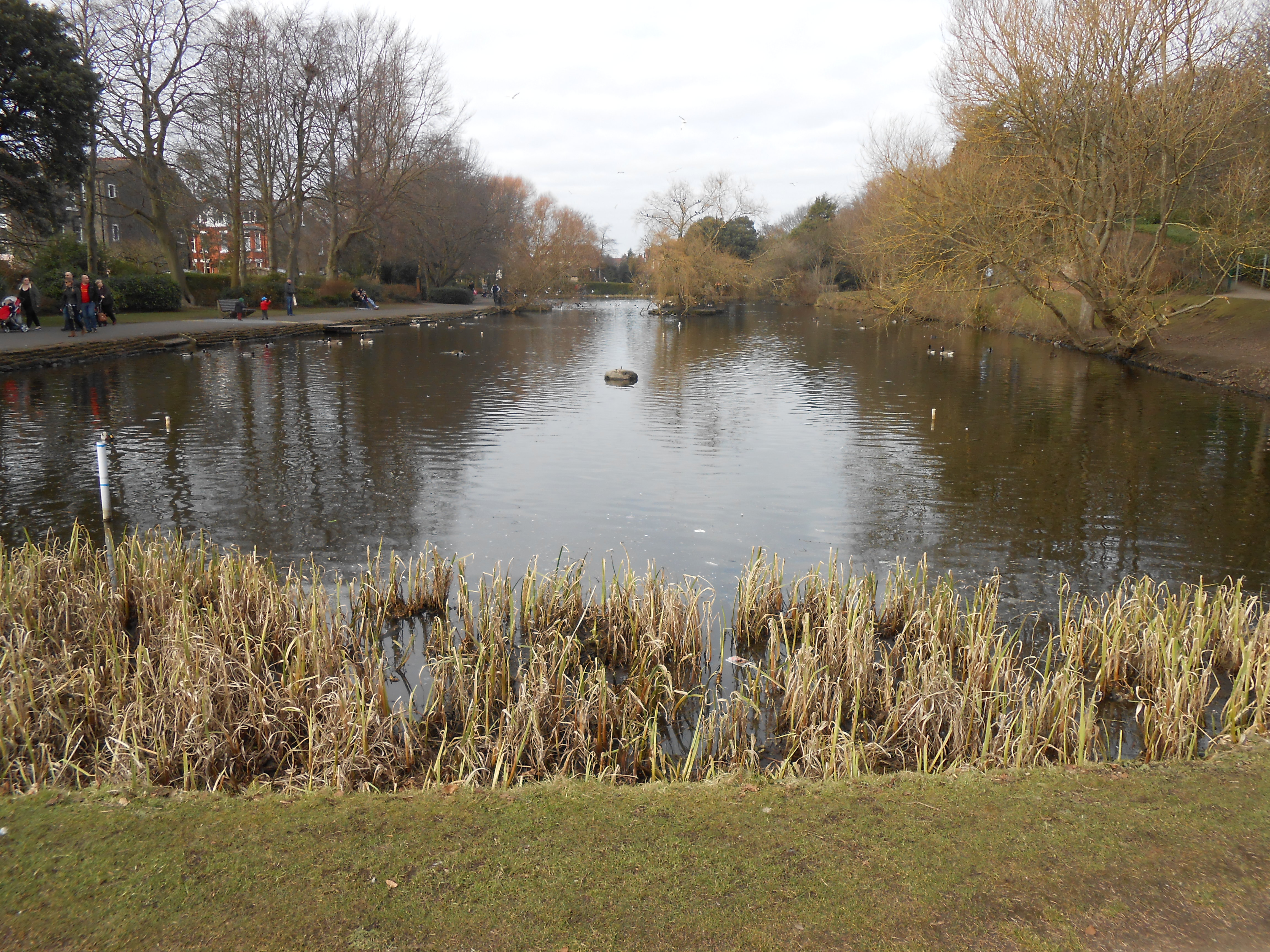 Photo taken at Ashton Park, West Kirby, Wirral, Merseyside, England.